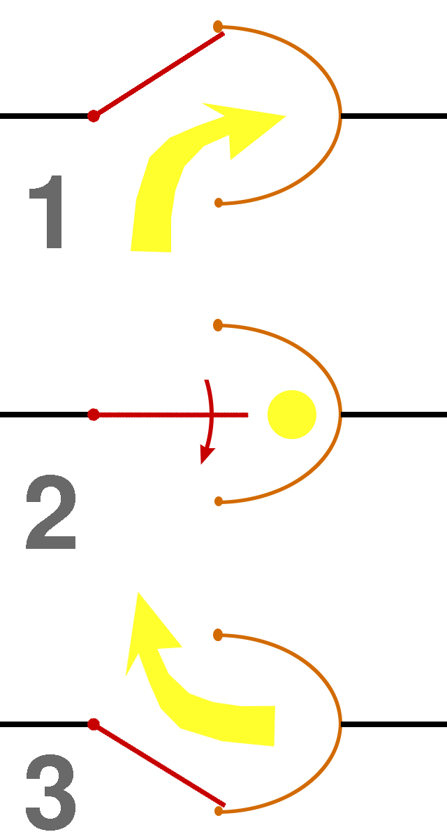 How kissing gates work